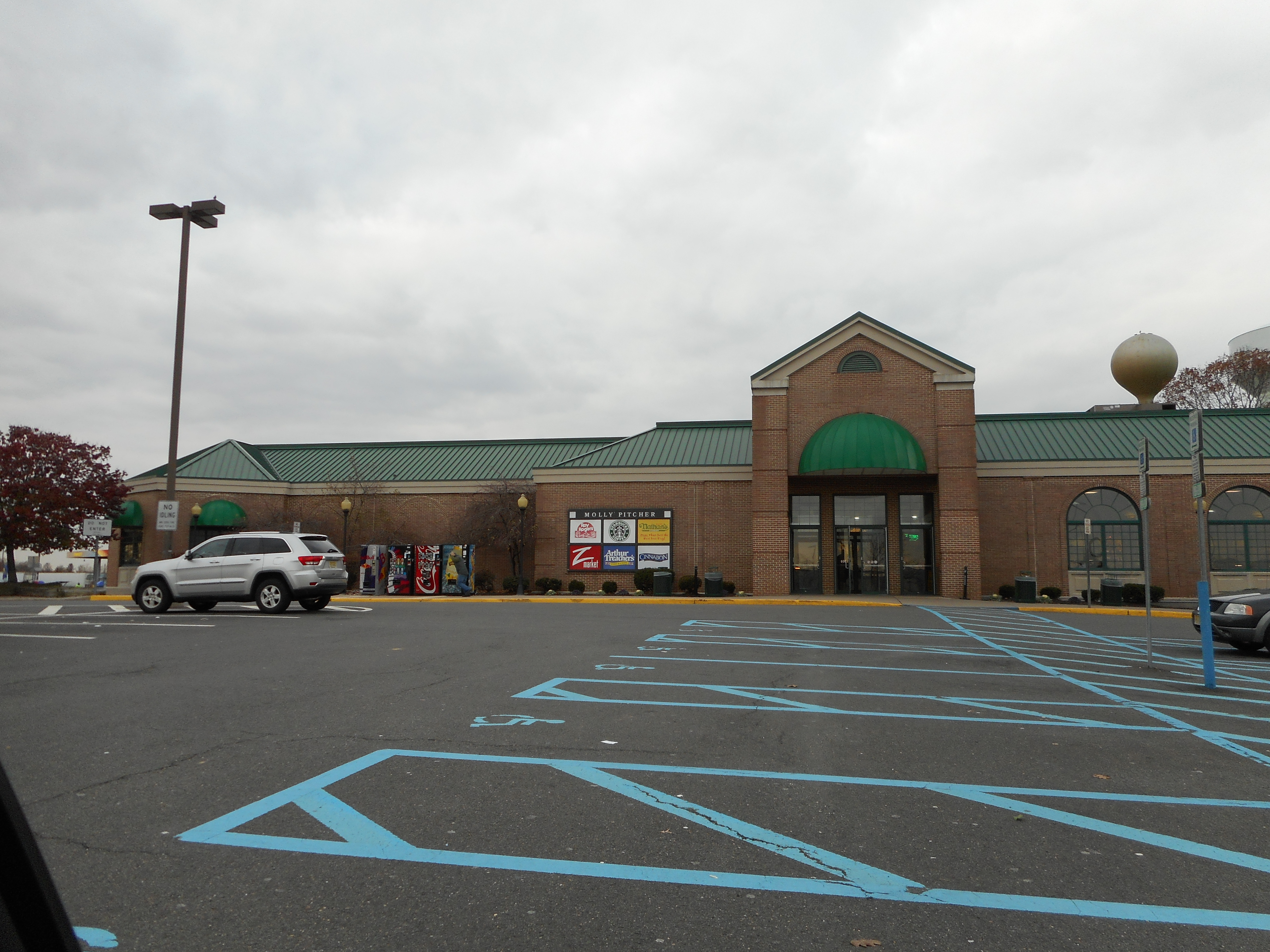 As the title implies; the main restaurant building for the Molly Pitcher Service Area at the southbound New Jersey Turnpike in Cranbury Township, New Jersey. The Sunoco/A-Plus gas station and convenience store is out of view off to the left of this picture.